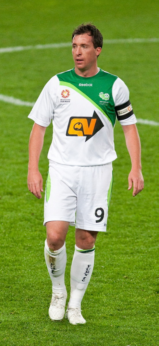 Robbie Fowler playing for the North Queensland Fury in the A-League.